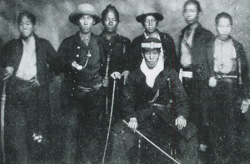 Bakumatsu-era photo of the Choshu irregular militia, Kiheitai, circa 1864-1865